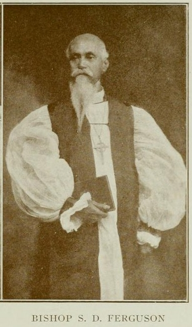 Bishop S.D. Ferguson - from: The land of the white helmet.